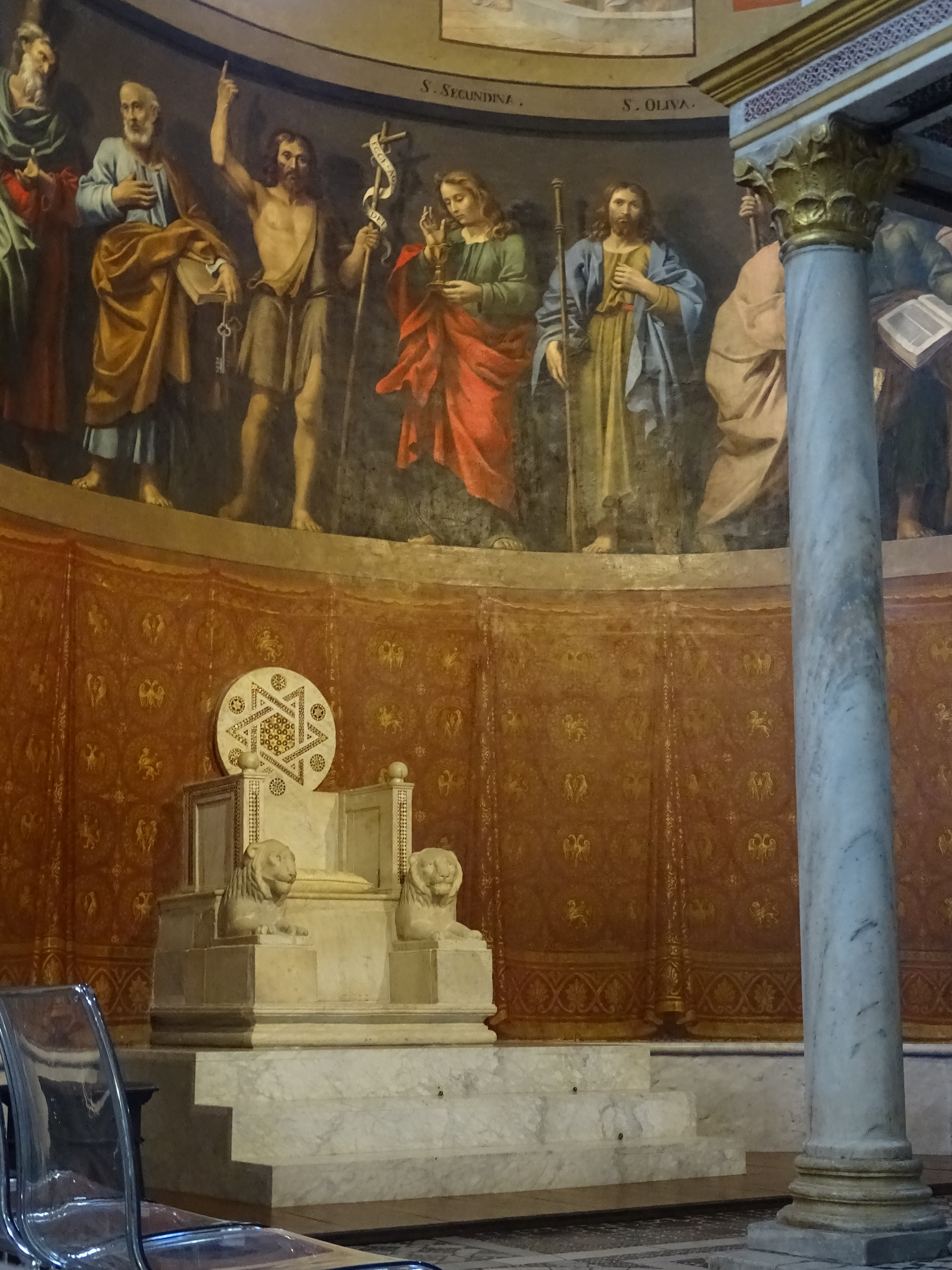 Cathedral Anagni, Italy